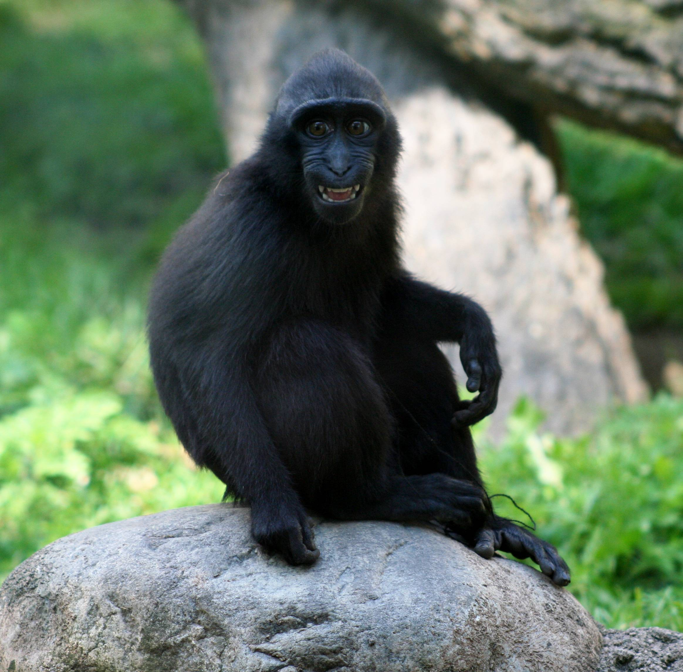 A juvenile Sulawesi Crested Macaque (Macaca nigra), at the Buffalo Zoo (Buffalo, NY).